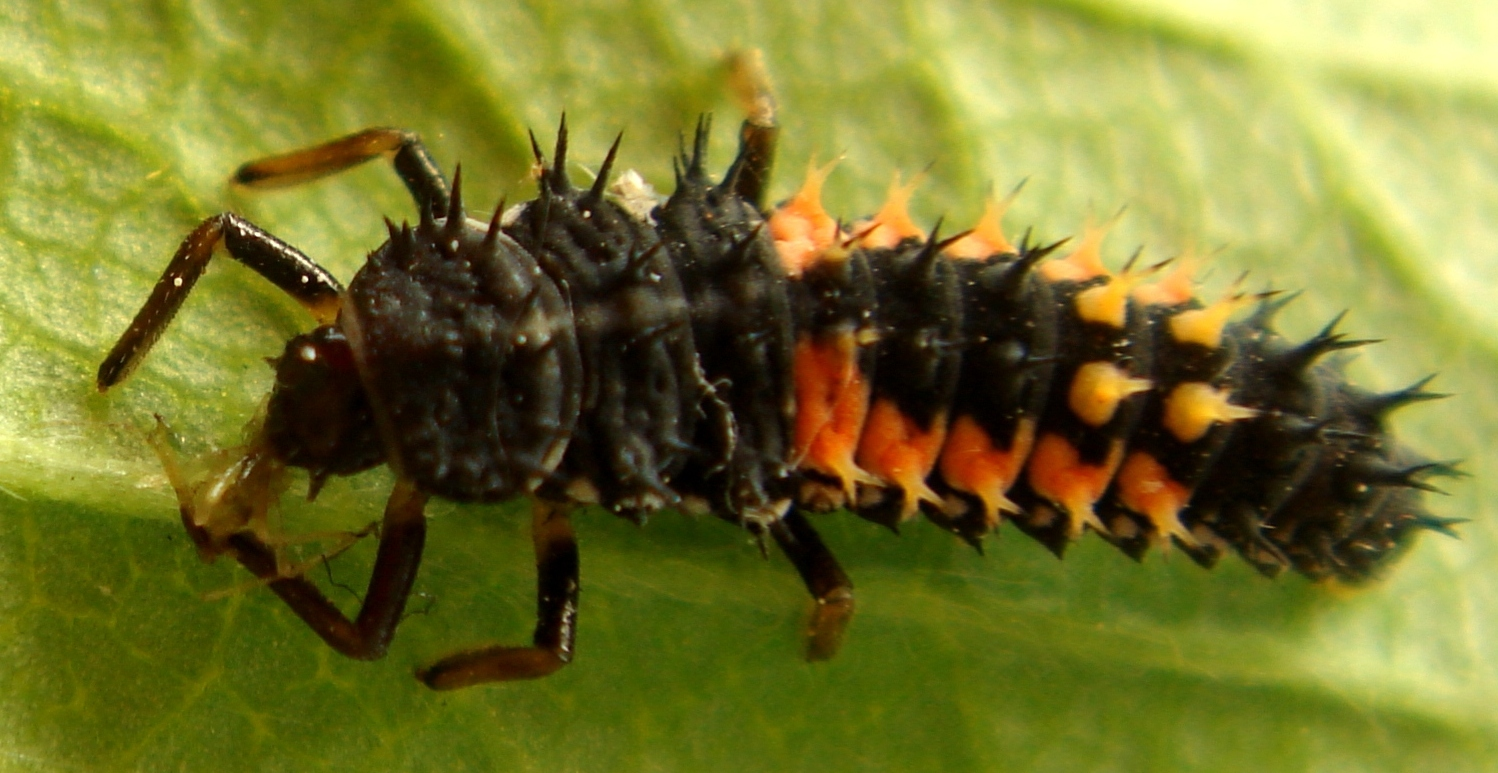 Harmonia axyridis larvae eating aphid